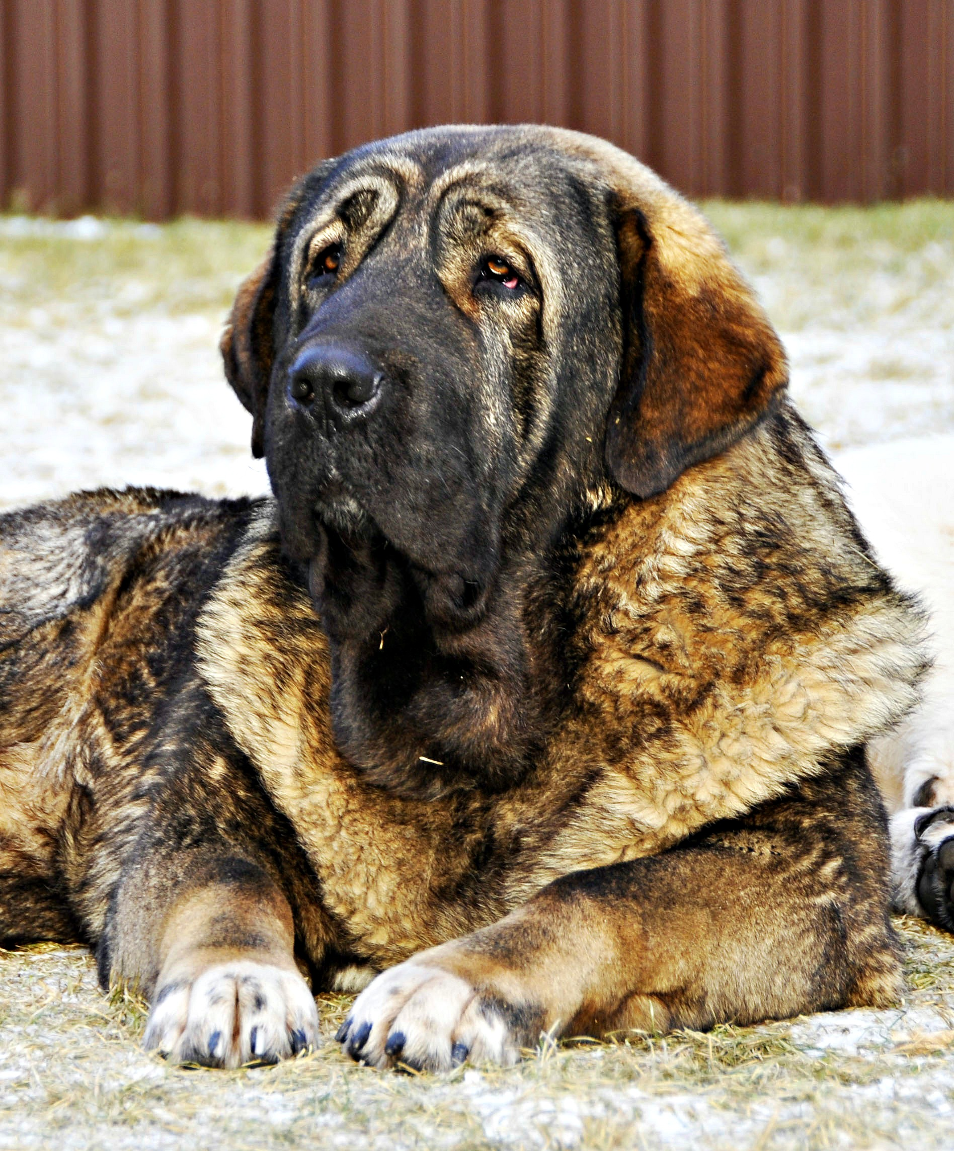 Испанский мастиф Элвис Мадридский Двор, владелец К. Медведева